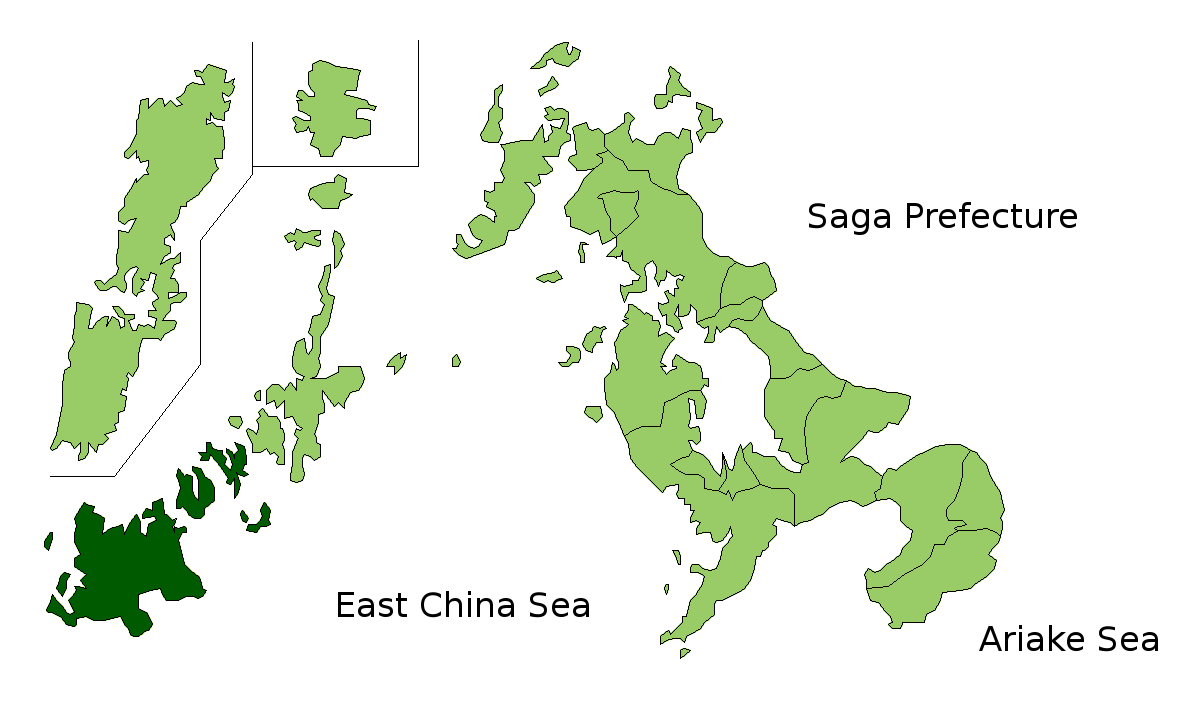 The location of Goto in Nagasaki Prefectuur, Japan